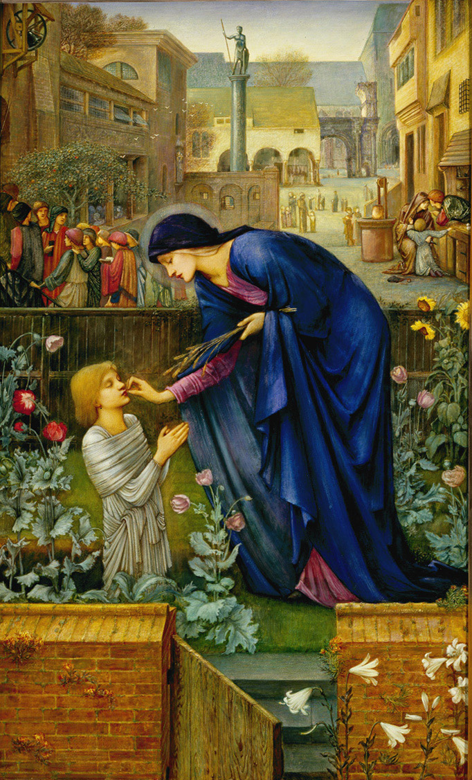 The medieval setting and English origin of Geoffrey Chaucer’s Canterbury Tales—a series of stories told by pilgrims as they travel from London to Canterbury Cathedral—made this text a particular favorite within the Pre-Raphaelite circle. “The Prioress’ Tale” recounts the gruesome murder of a young boy. His throat was slit while singing the Virgin Mary’s praises. His voice was miraculously restored when the Virgin placed a grain of corn on his tongue. Burne-Jones places what critic John Ruskin referred to as the “beautiful circumstance” of the story in the immediate foreground, while relegating the more distasteful element of the boy’s capture to the background. (see references)